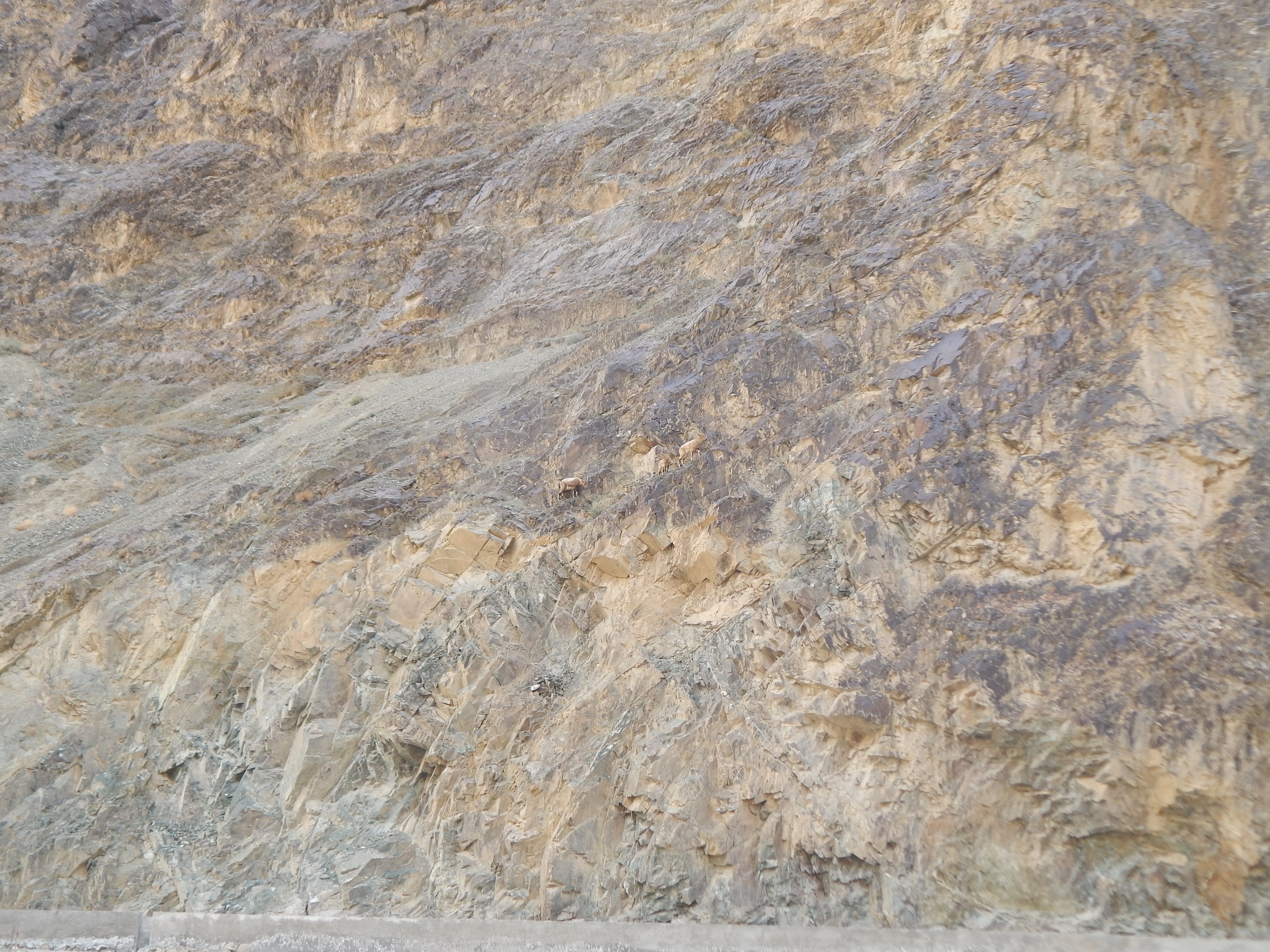 The coat of Siberian ibex is well suited for camouflage in mountains with low or no vegetation. Siberian ibex (Capra sibirica) in Kargil, Ladakh, J&K, India.